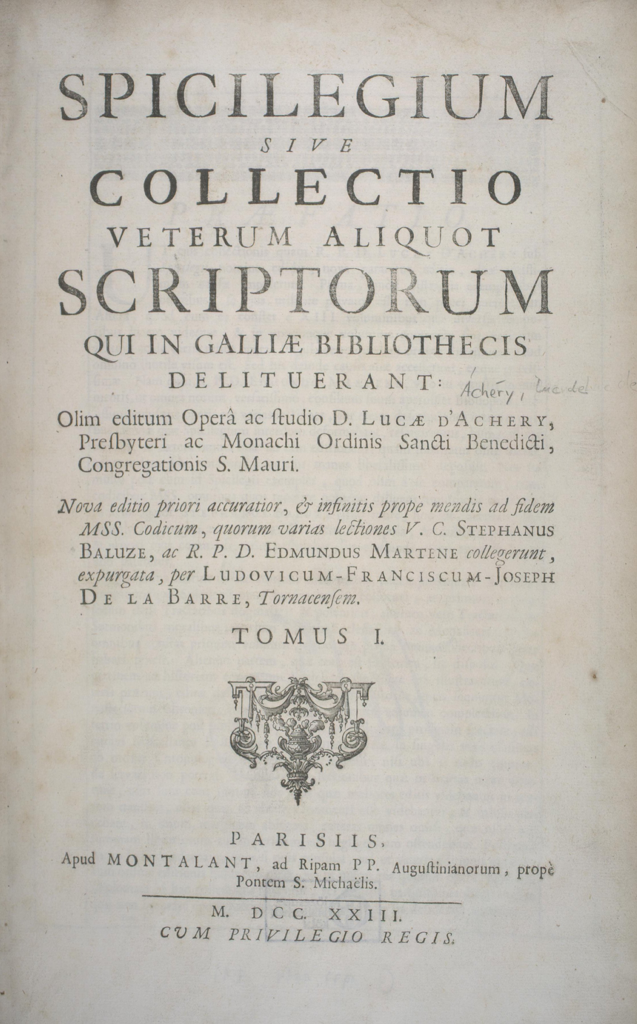 This is the title page of the 1723 edition of the work Spicilegium sive collectio veterum aliquot scriptorum by Luc d'Achéry (1609-1684).